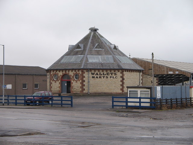 Castle Douglas cattle market